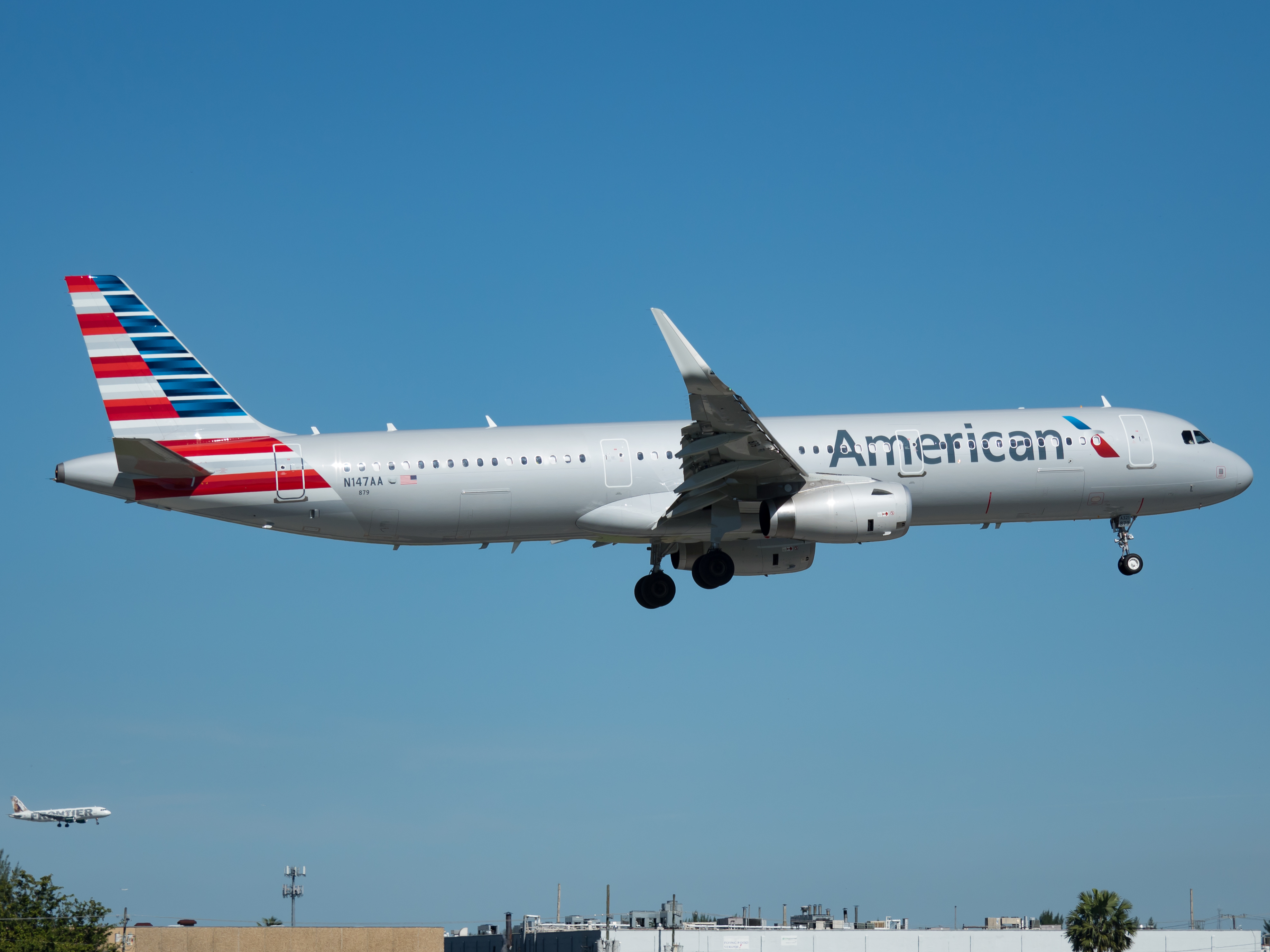 American Airlines Airbus A321 at Miami International Airport